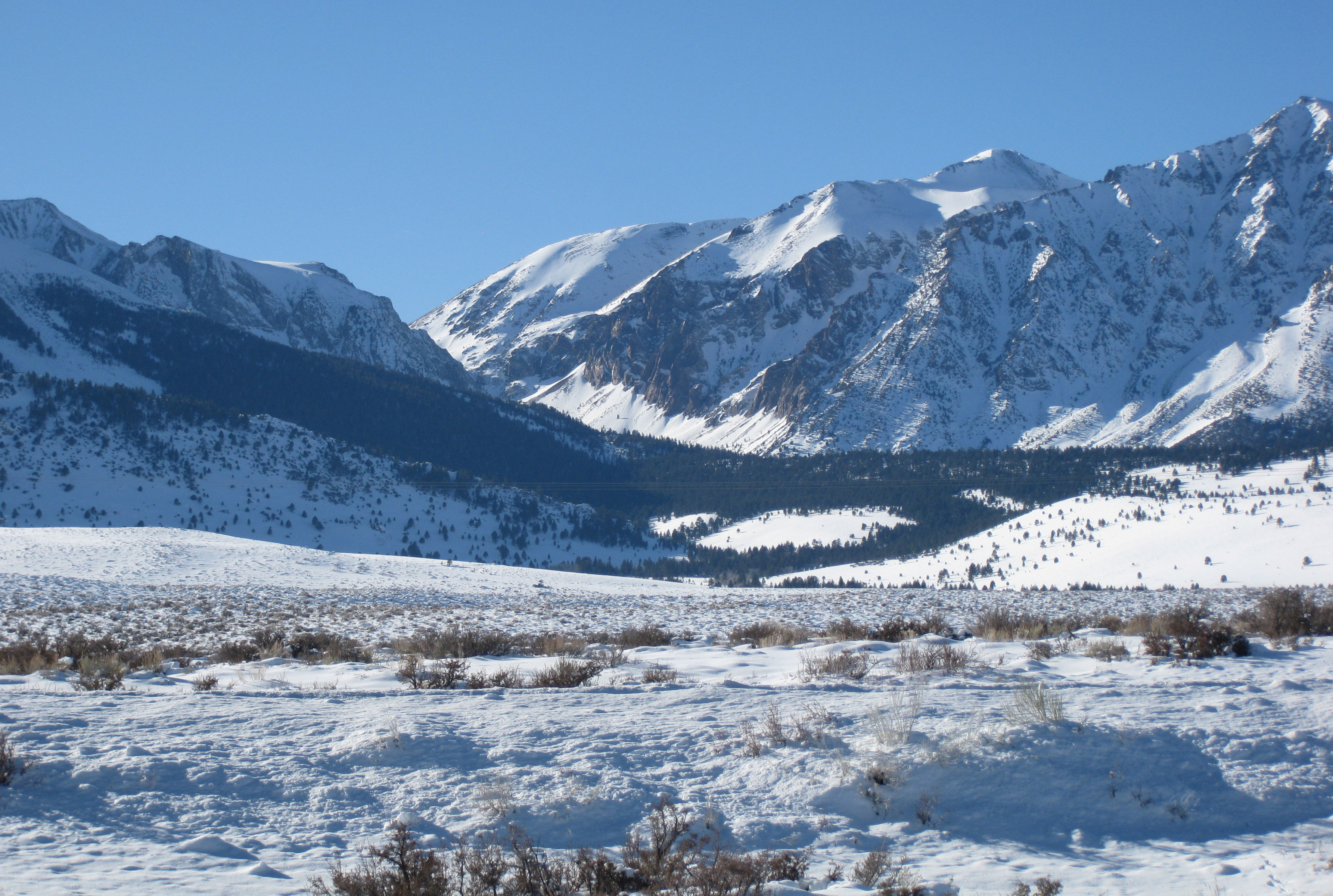 Mono Pass (the northern one, near Tioga) in winter, viewed from the East side. Mono County, Eastern Sierra, Califormia.